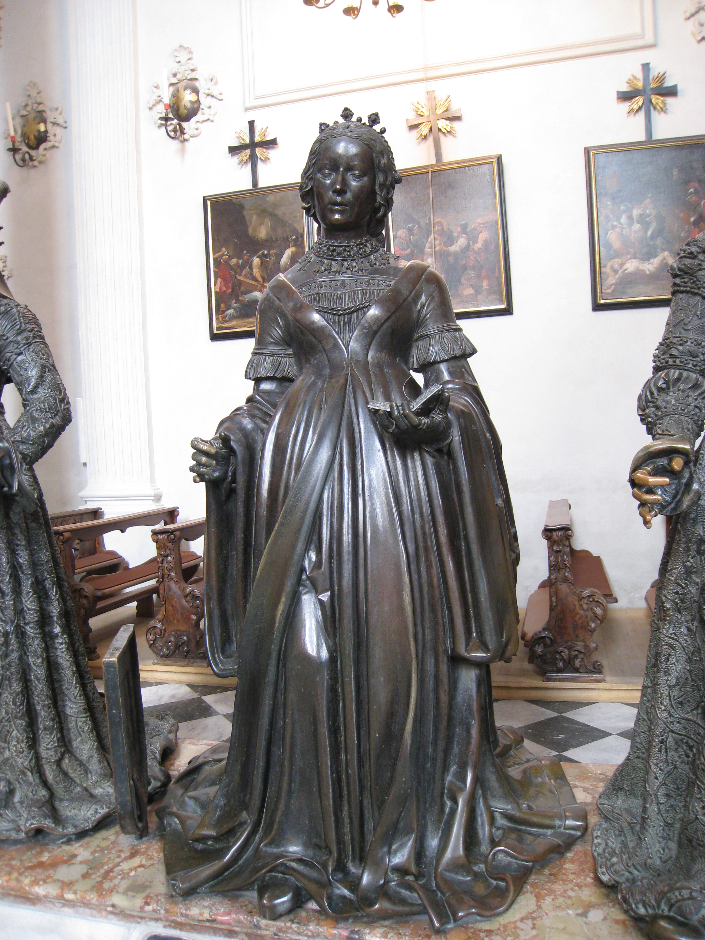 Statue within Hofkirche, Innsbruck, Austria. This statue is old enough so that it is not covered by any copyright.